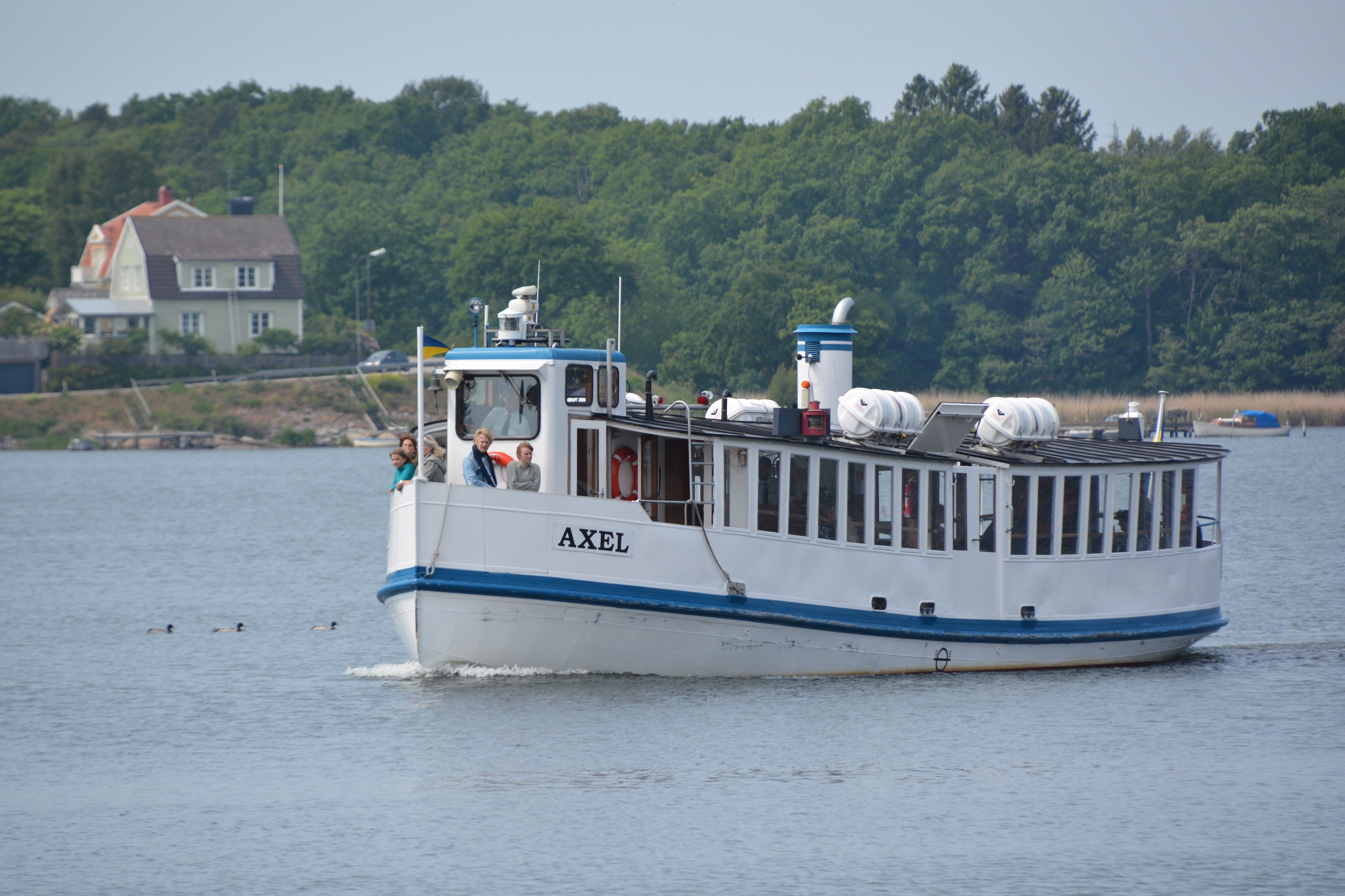 M/F Axel i hamninloppet till Karlskrona